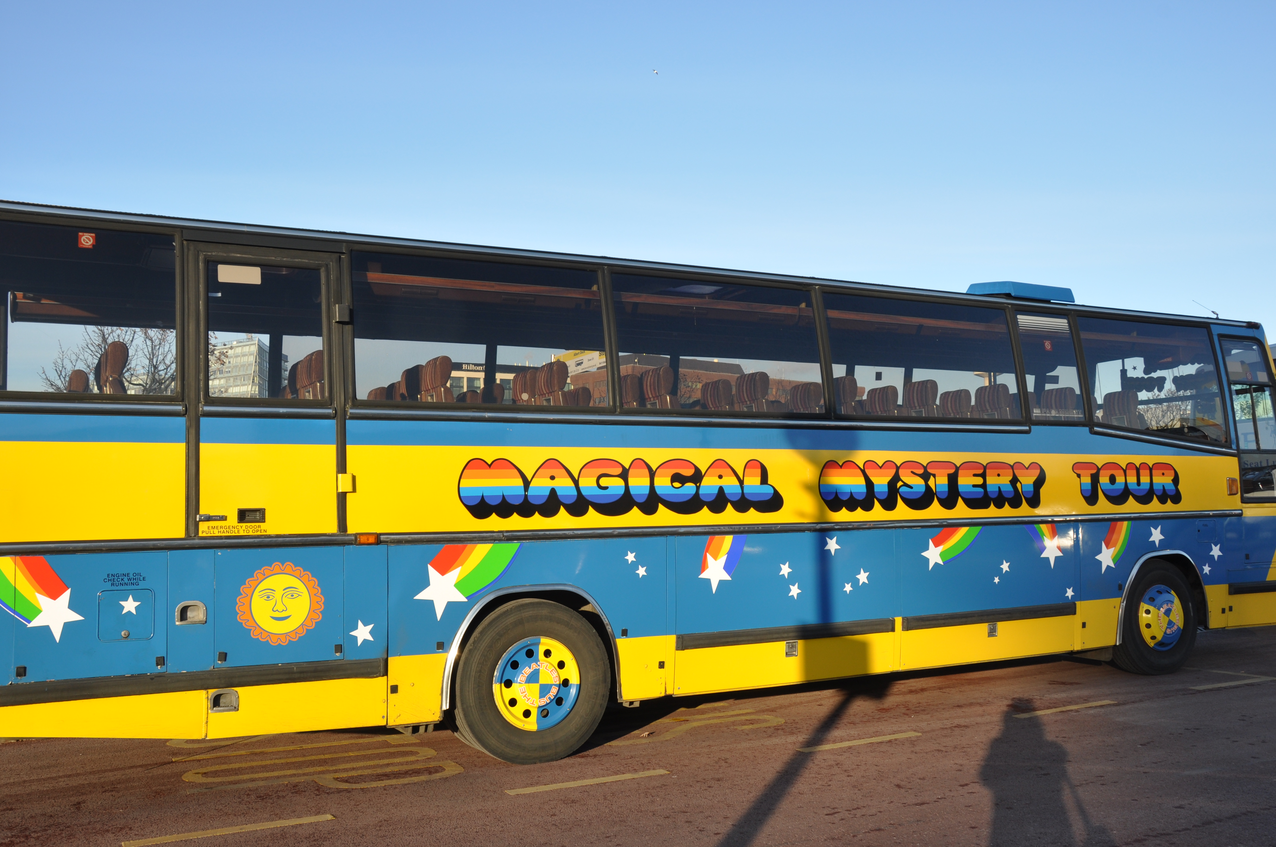 Magical Mystery Tour bus (side)